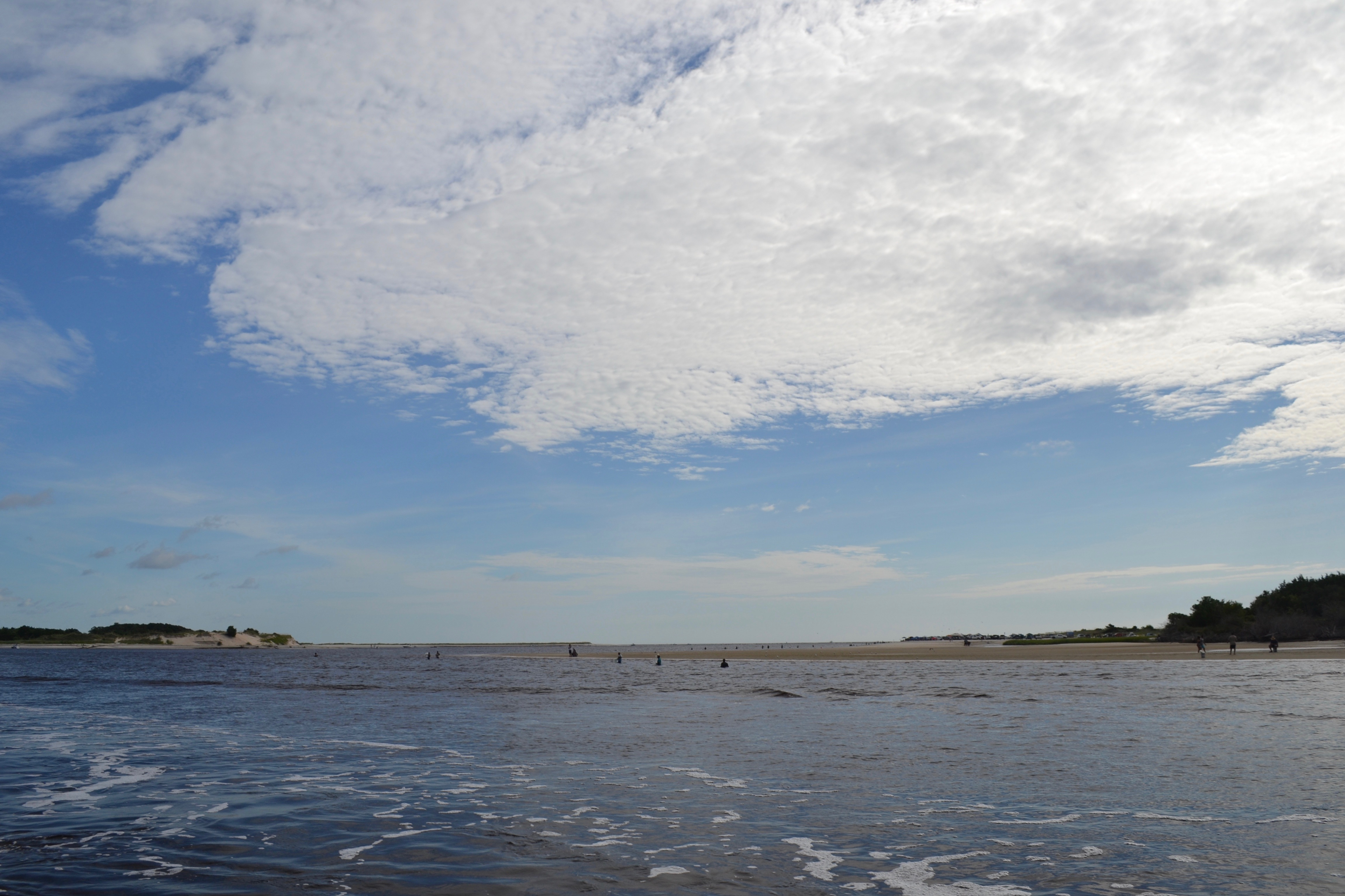 Carolina Beach Inlet 2018